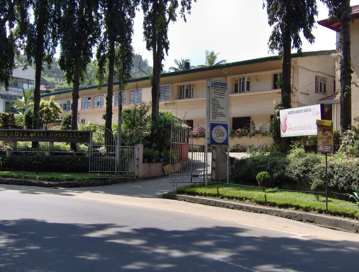 Lakeside Adventist Hospital, Kandy, Sri Lanka